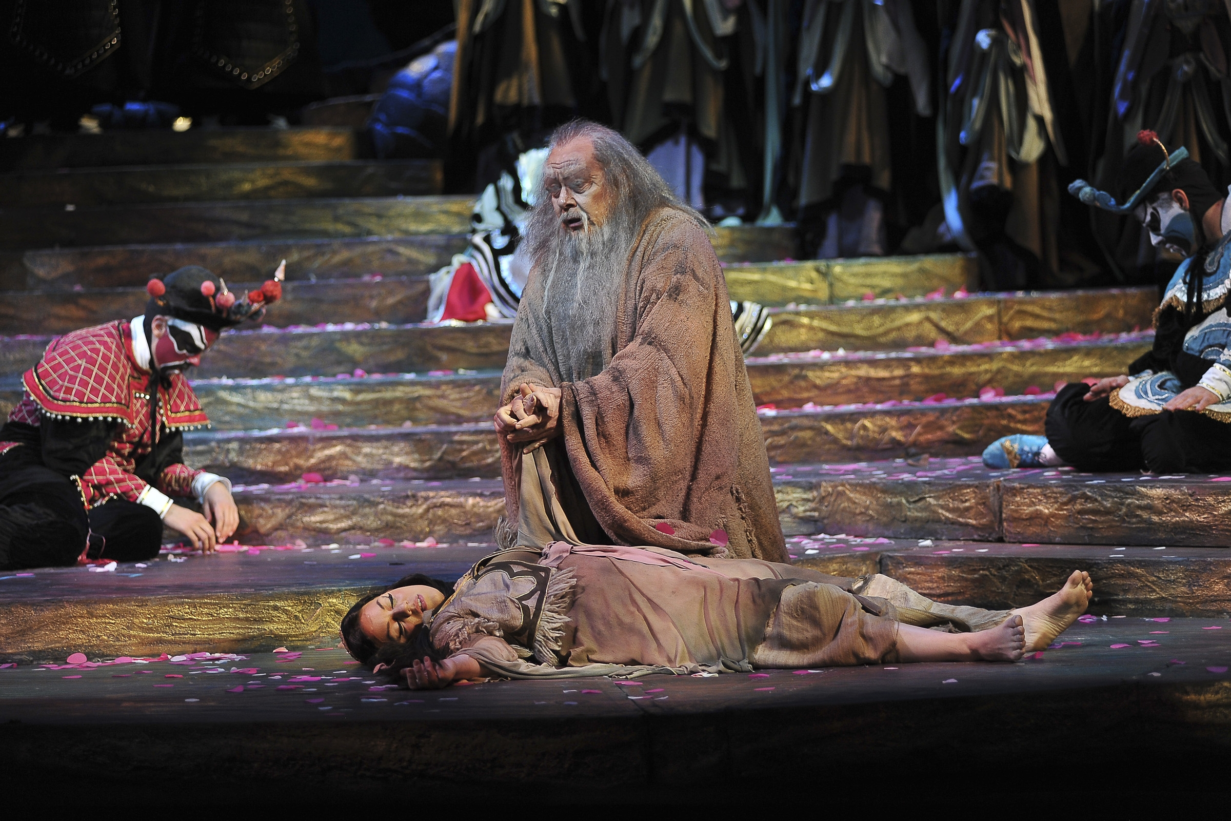 Kevin Langan & Elizabeth Caballero in 2010 production of Turandot by Giacomo Puccini (Photo: Gaston De Cardenas), part of FGO's Opera Free for All project.